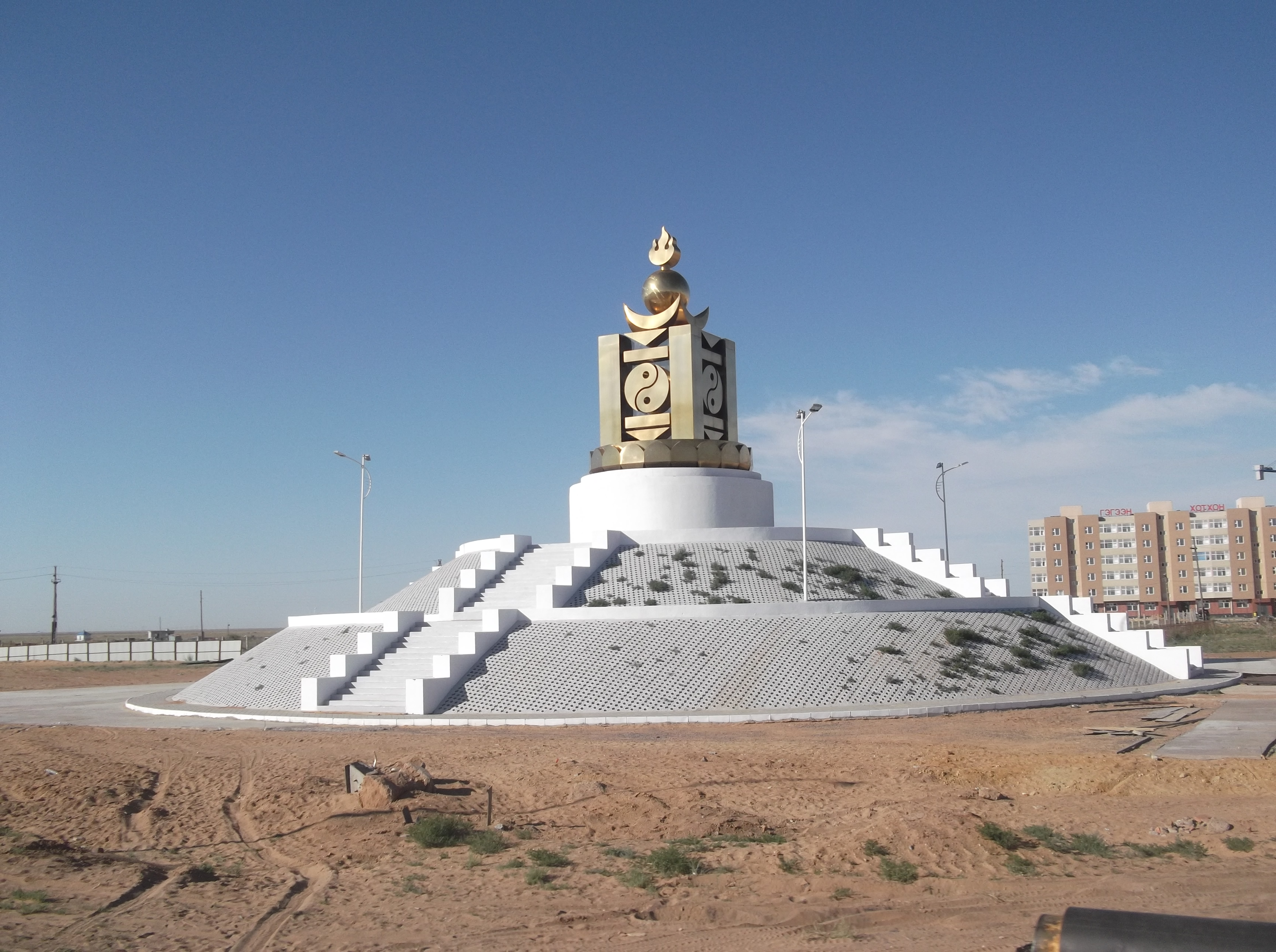 Soyombo symbol sculpture at Zamyn-Üüd.